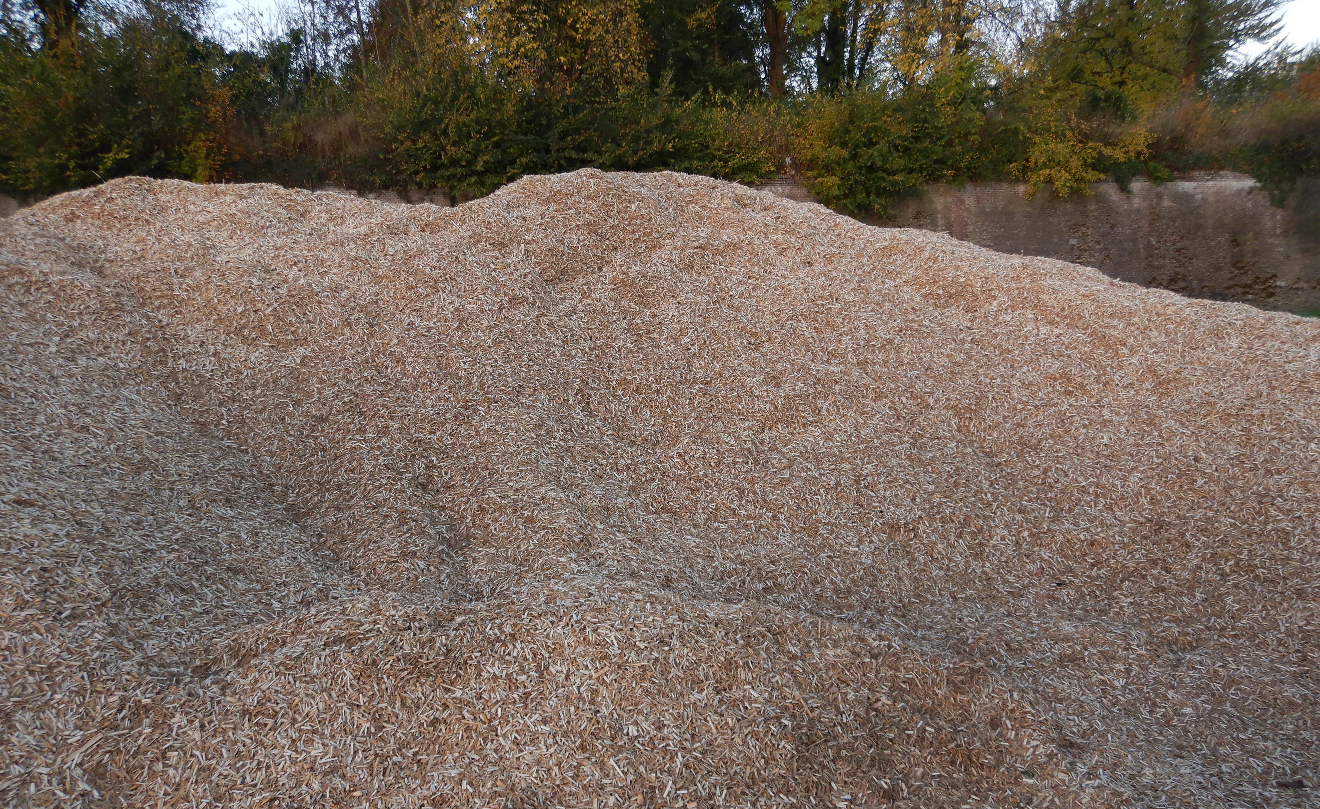 Miscanthus ground for use in mulch, in Lille (Northern France), 2018 Lamiot